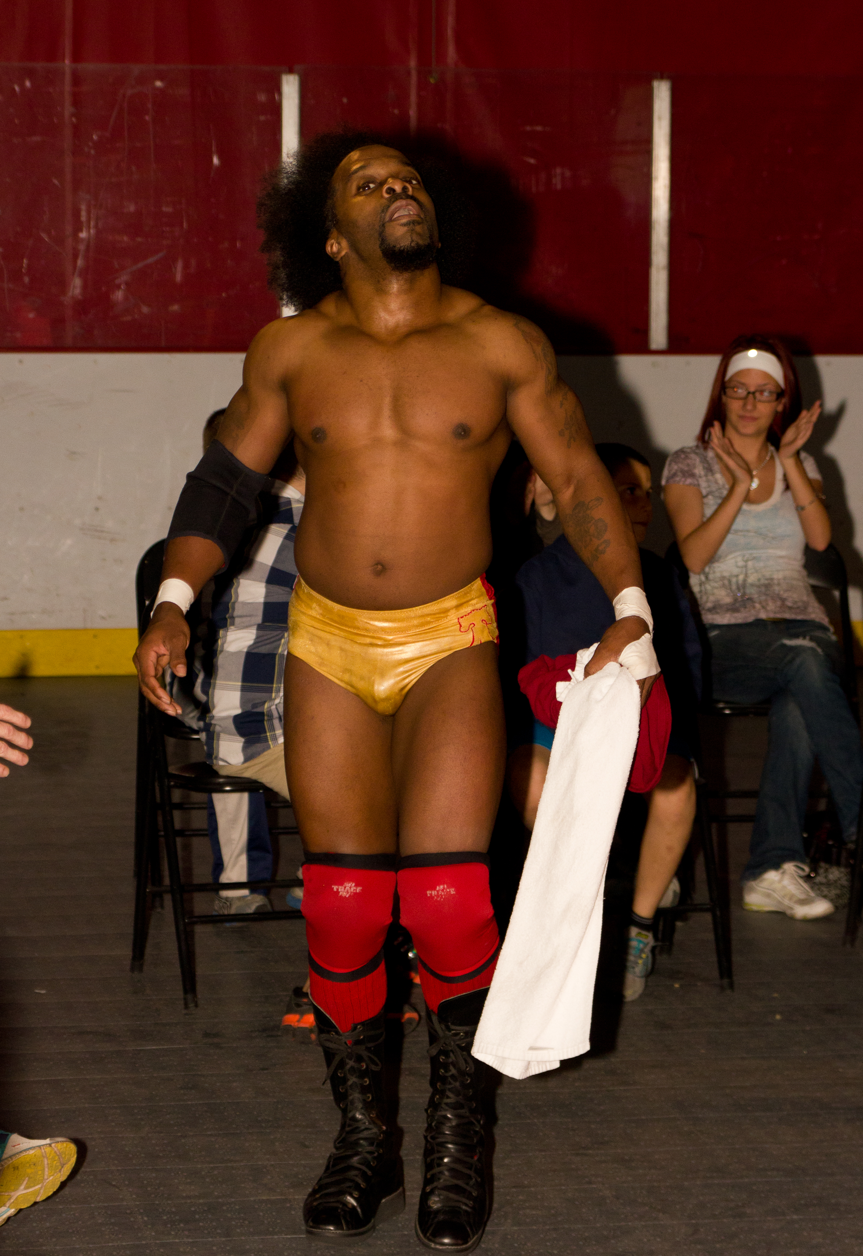 Indy wrestler Blk Jeez leaving the ring at an SCW show in Vaughan